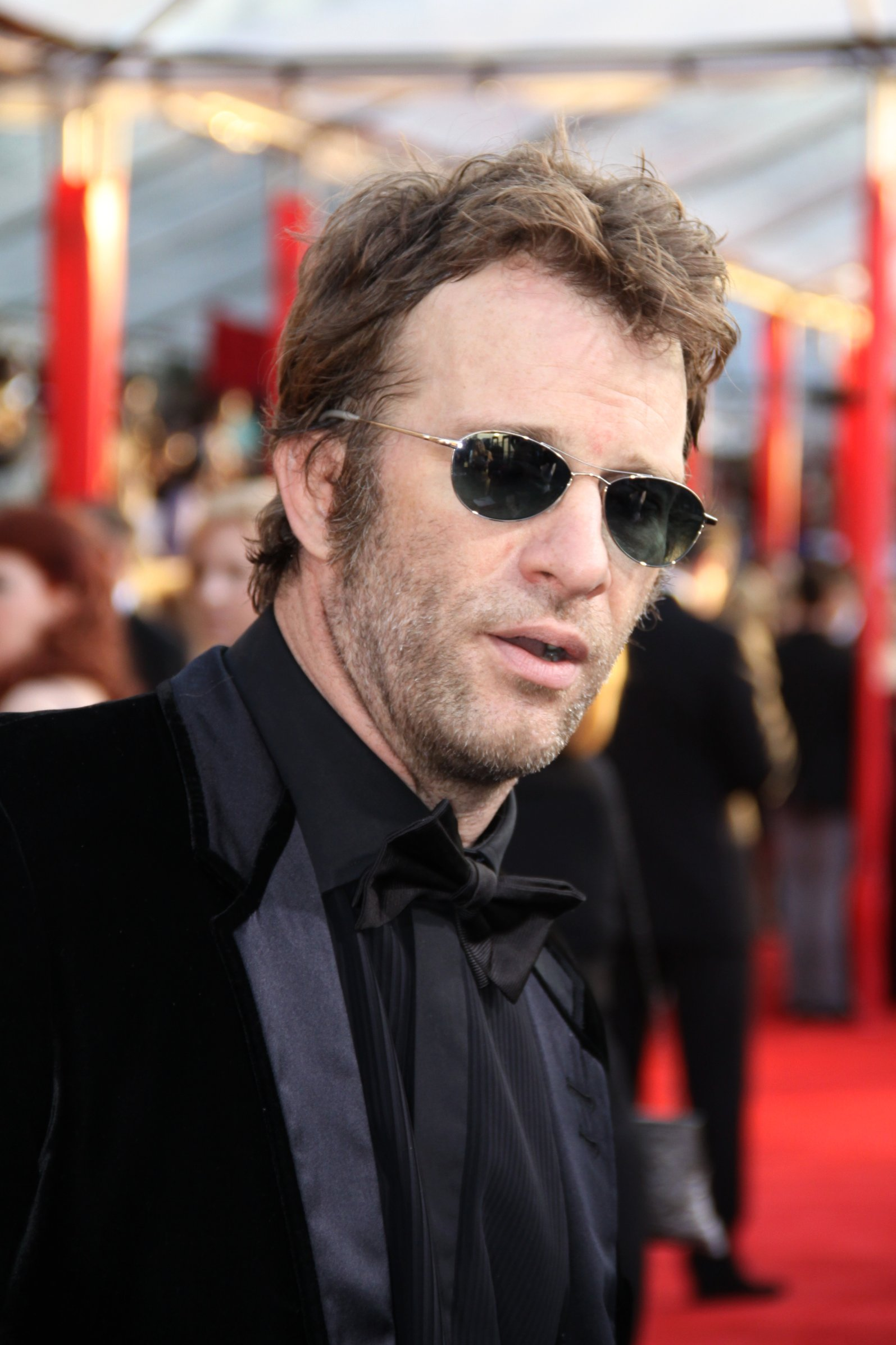 Thomas Jane at the Screen Actors Guild Awards, Shrine Auditorium, Los Angeles, on January 23rd, 2010.